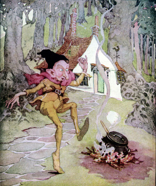 Old, Old Fairy Tales: "Rumplestiltskin" by Anne Anderson. Rumplestiltskin is my name...